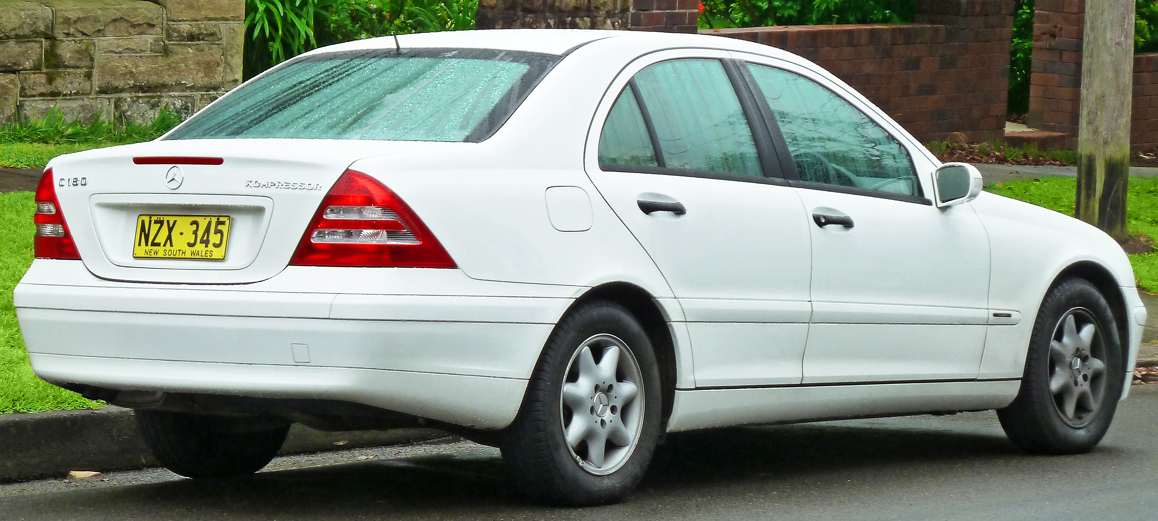 2003 Mercedes-Benz C 180 Kompressor (W 203 MY03) Classic sedan. Photographed in East Lindfield, New South Wales, Australia.